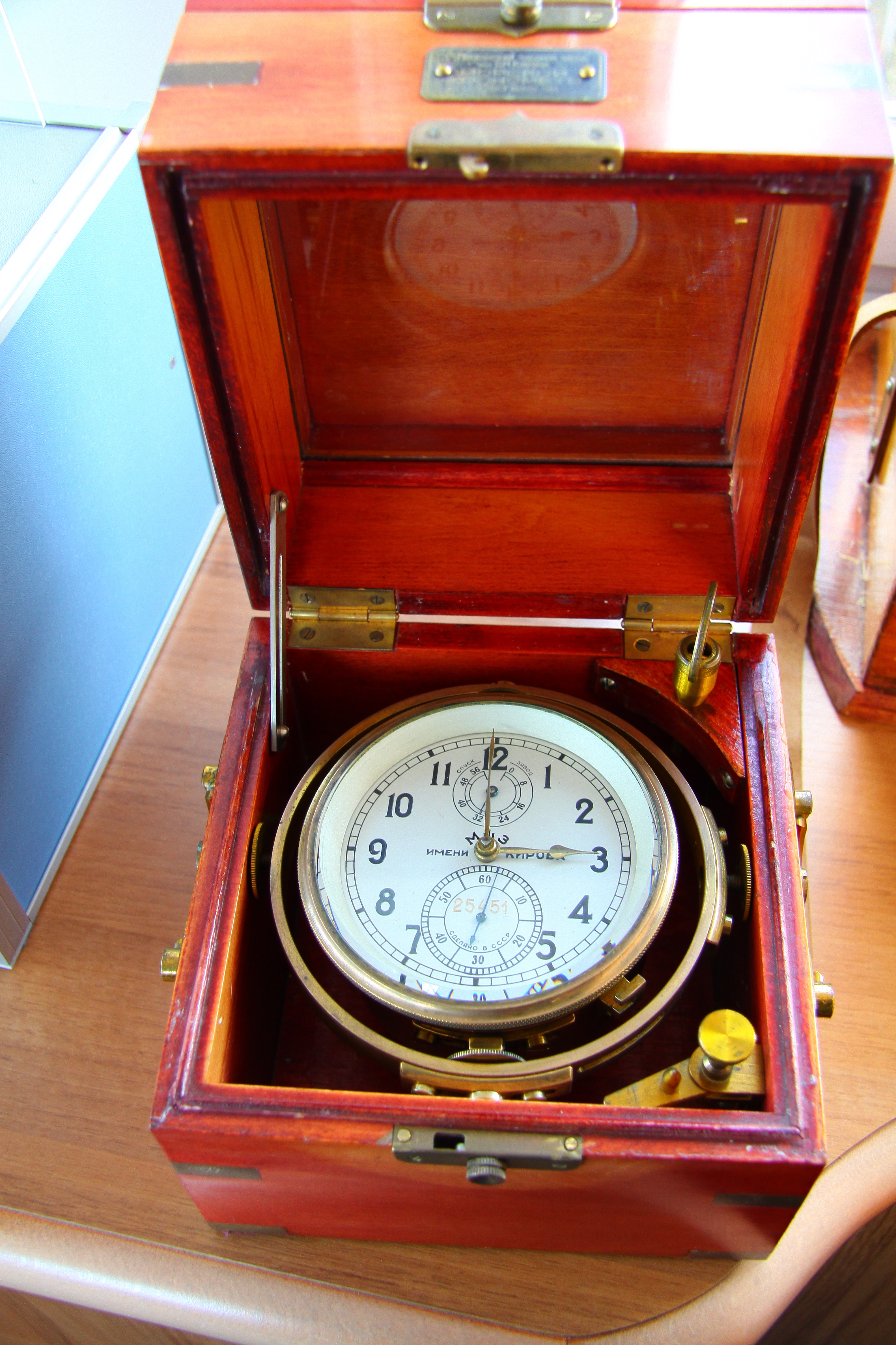 Russian gimbal ship chronometer.